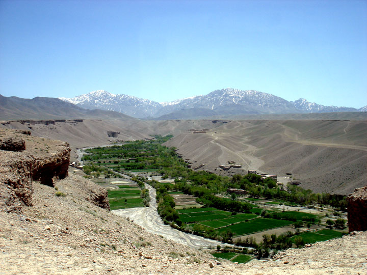 The main river valley running through the Khoshi district in Logar, Afghanistan. Taken April 26, 2007. Photo by 1st Lt. John Severns, U.S. Air Force Severnjc 11:08, 30 April 2007 (UTC)